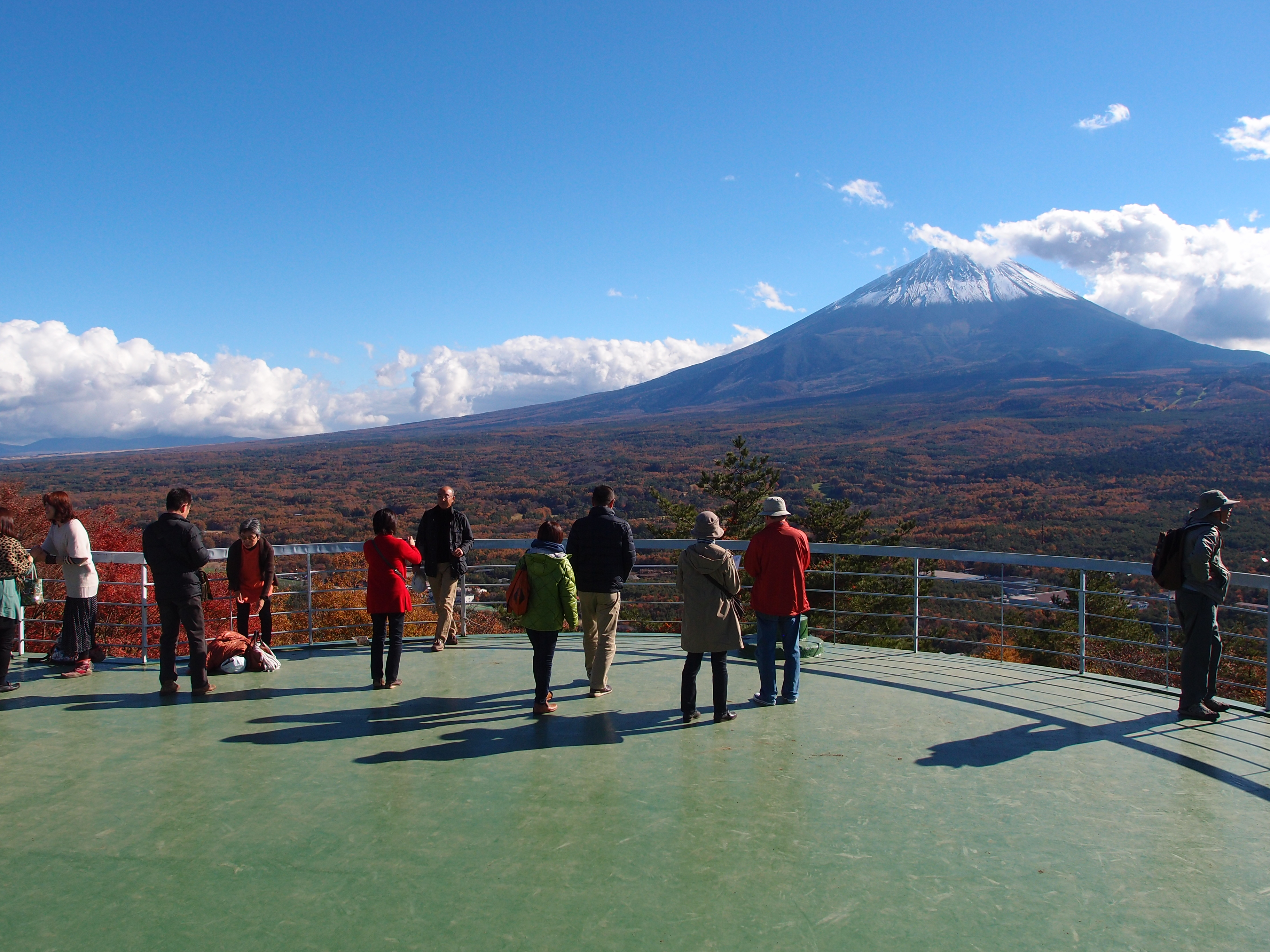 Mount Fuji as seen from Koyodai.